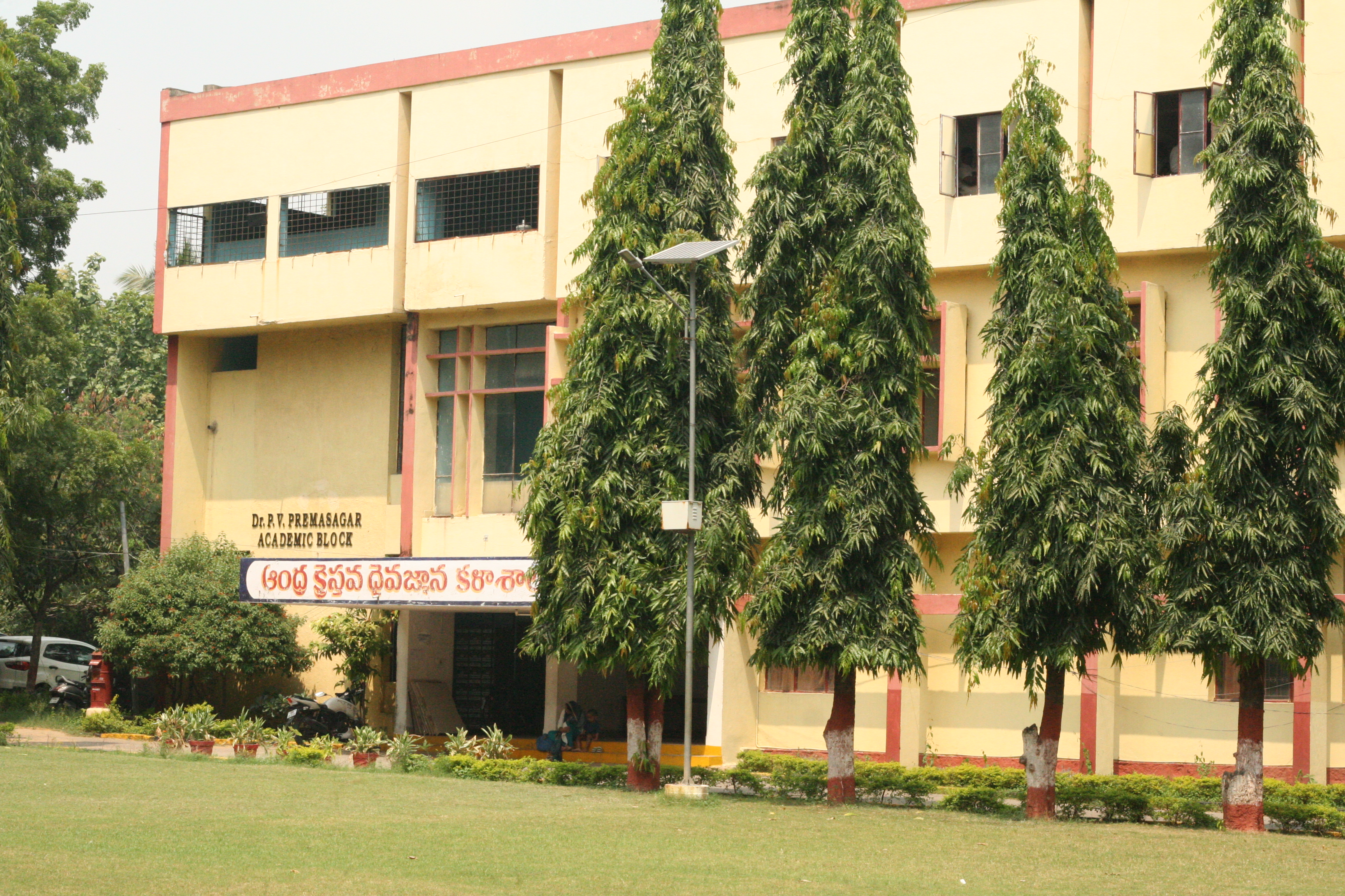 Academic block side view